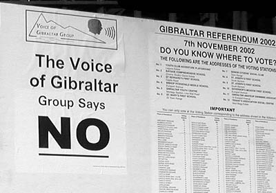 Voice of Gibraltar Group poster in the 2002 Election. The VOGG was the only entity which actively campaigned on the streets in the run up to the election, although others ran posters.